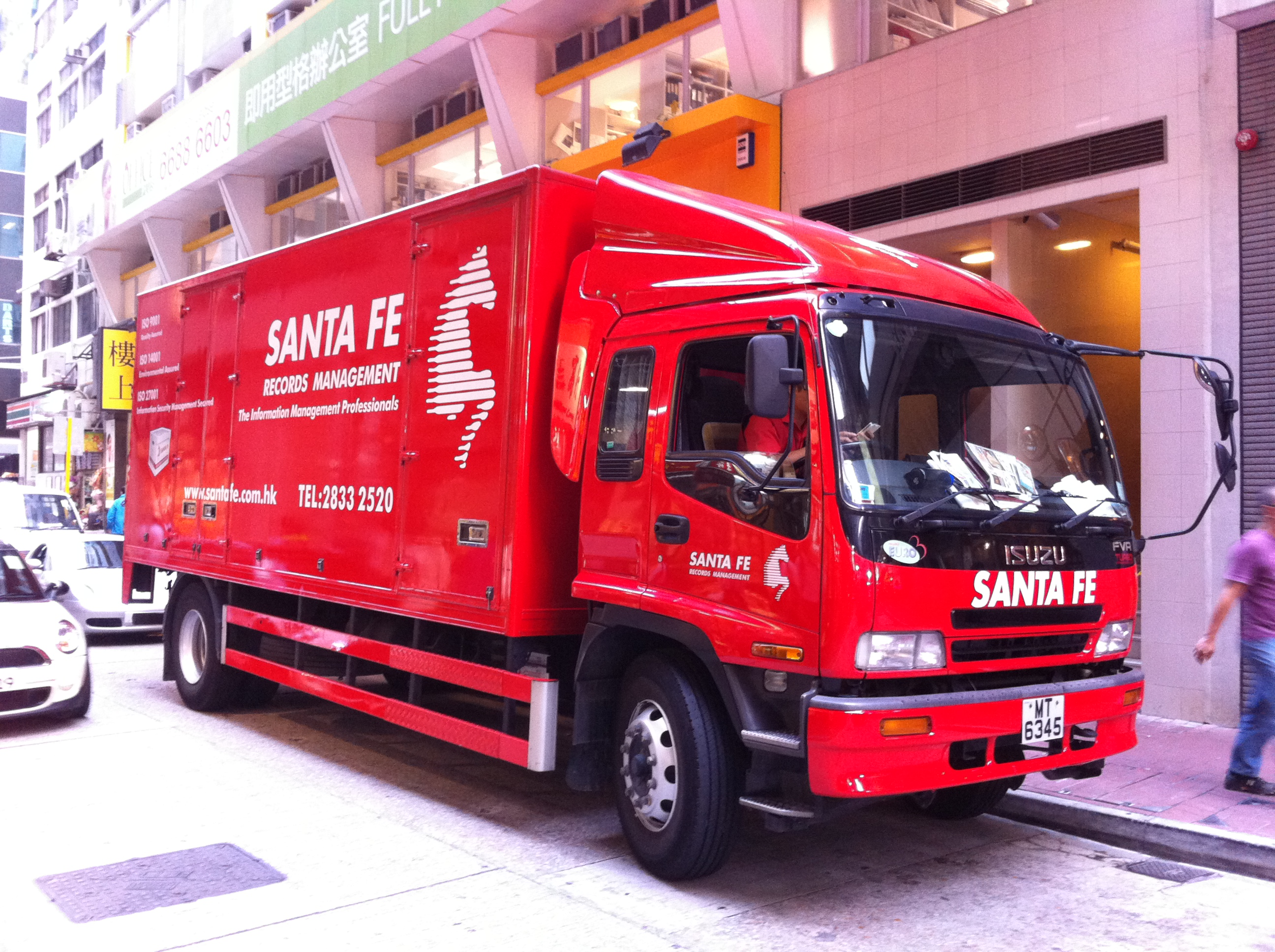 Wing Lok Street, Sheung Wan, HK